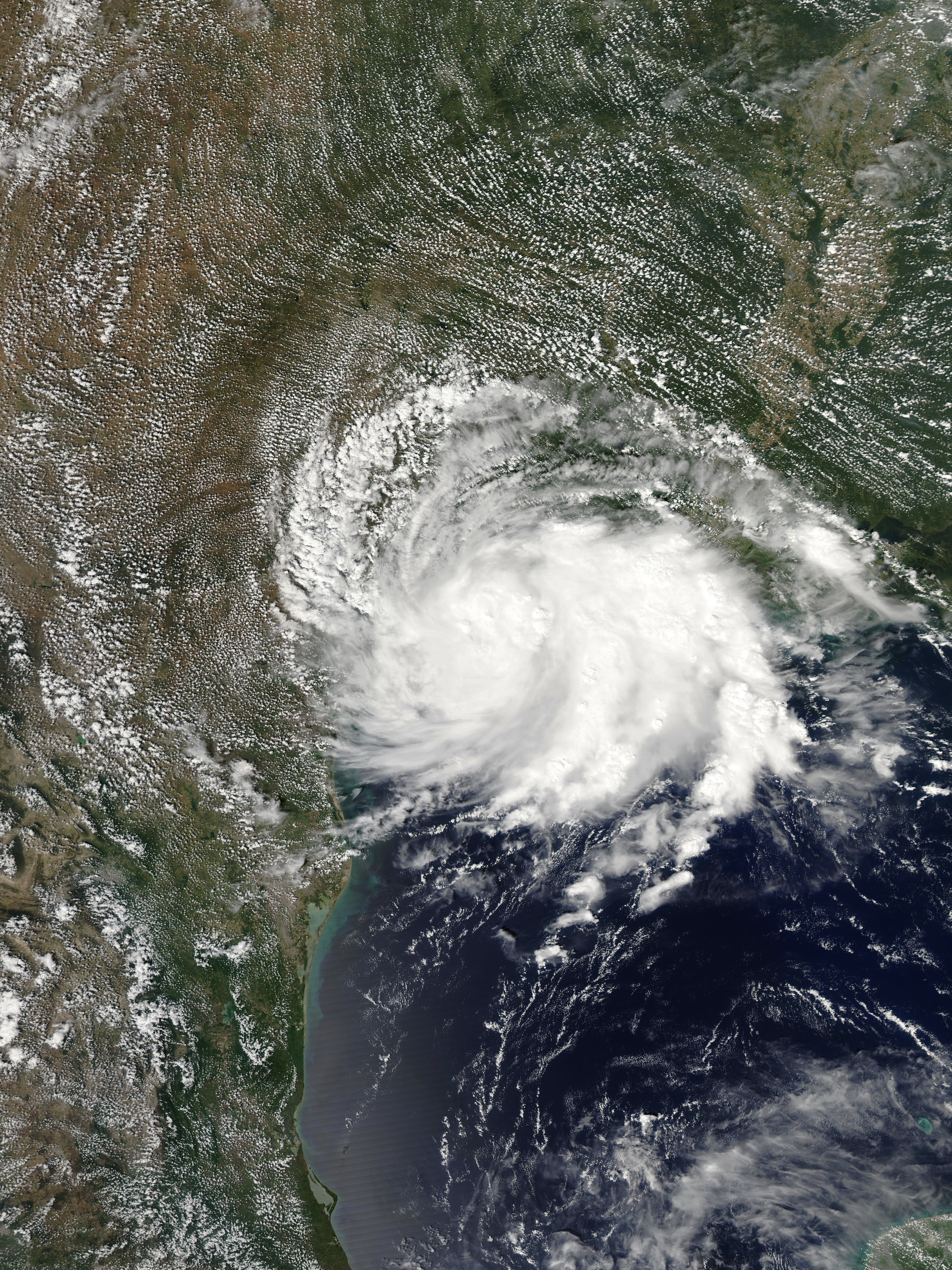 Tropical Storm Imelda shortly after making landfall near Freeport, Texas, on September 17, 2019